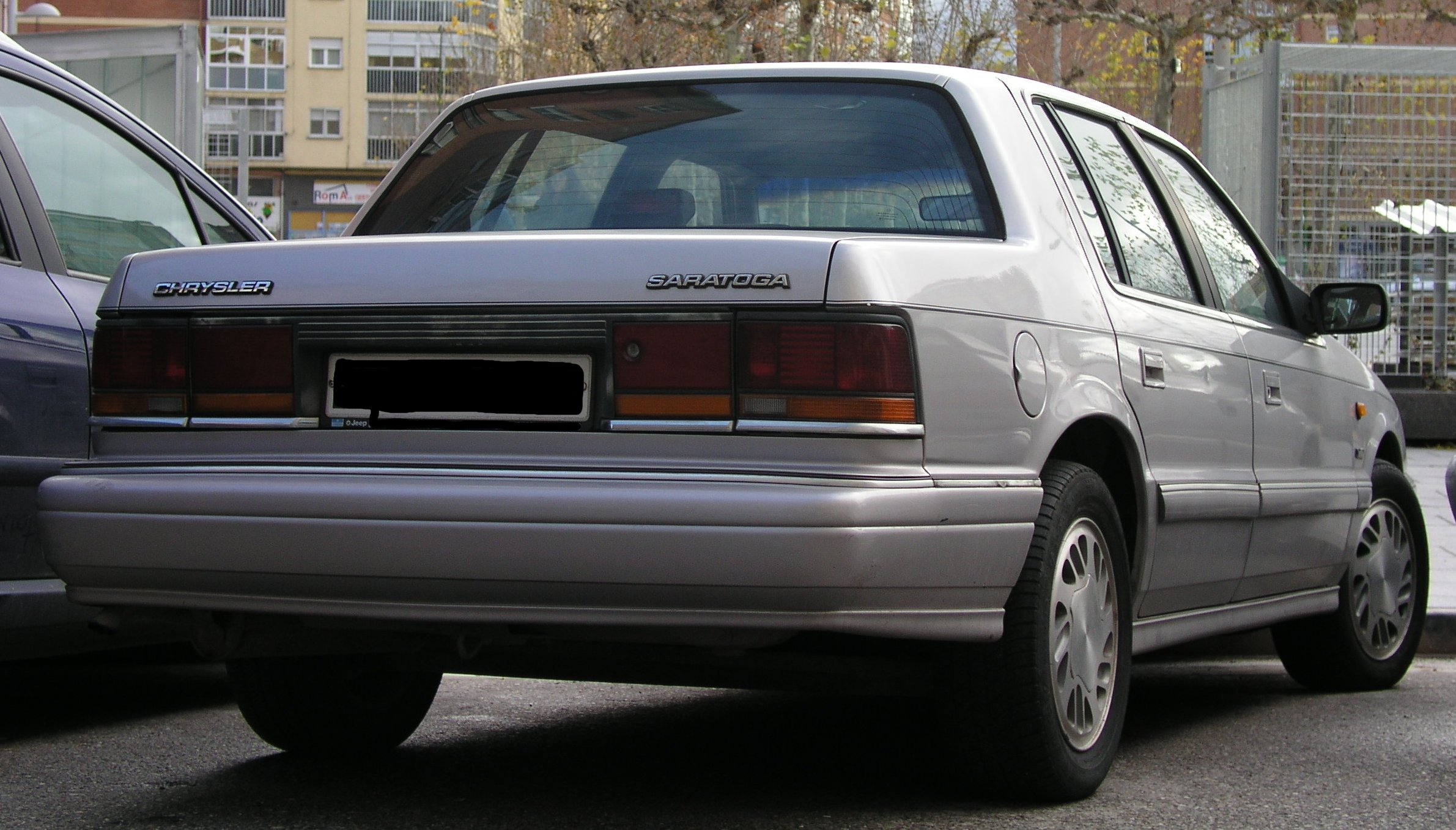 Spanish Chrysler Saratoga rear